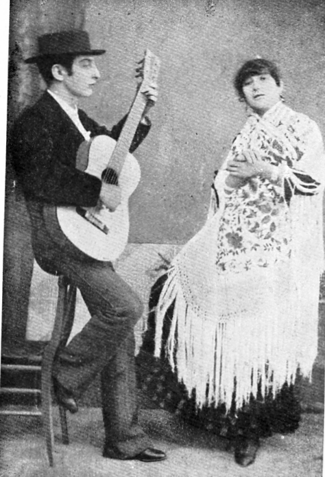 Paco de Lucena with his partner La Parrala.